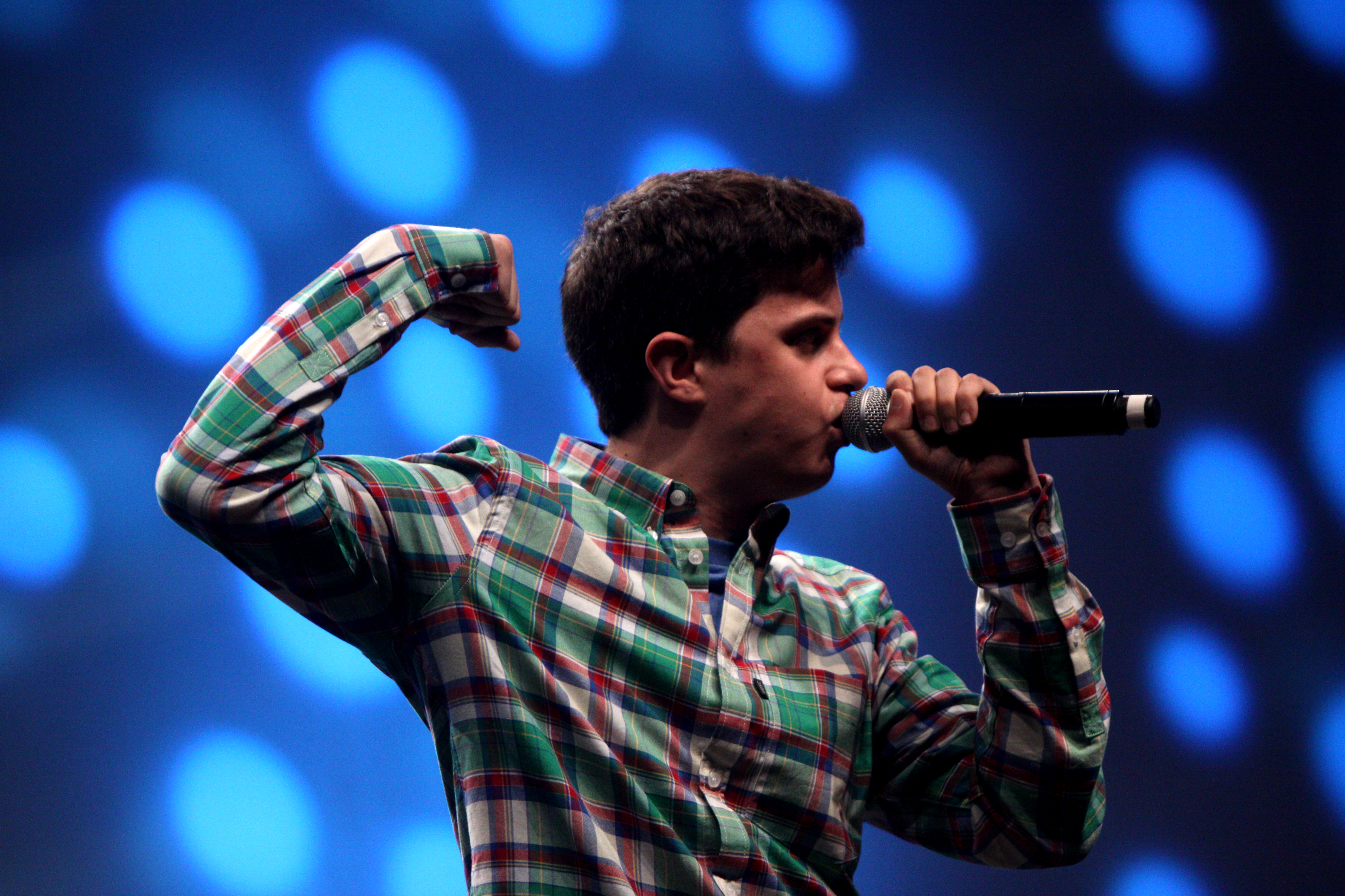 George Watsky performing at VidCon 2012 at the Anaheim Convention Center in Anaheim, California.